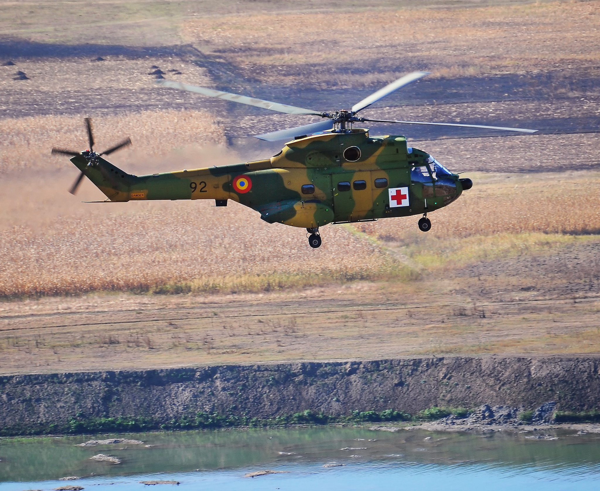 IAR 330 MEDEVAC in flight.